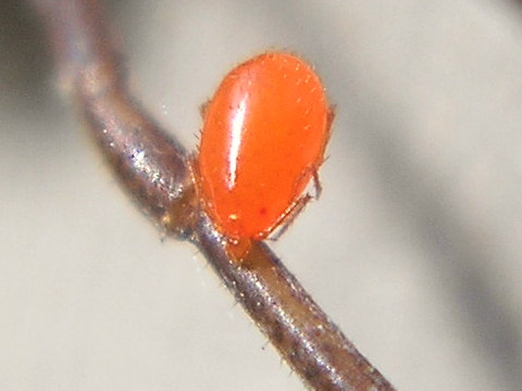 Mite larva(e) of either family Trombidiidae or Erythraeidae on female Harvestman of species Rilaena triangularisLocation: Lonnekermeer, Enschede, NetherlandsKeywords: Opiliones, Harvestmen, mites, Acari, larva, parasite, parasitism